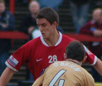 Rob Elvins. Image cropped from original at flickr.